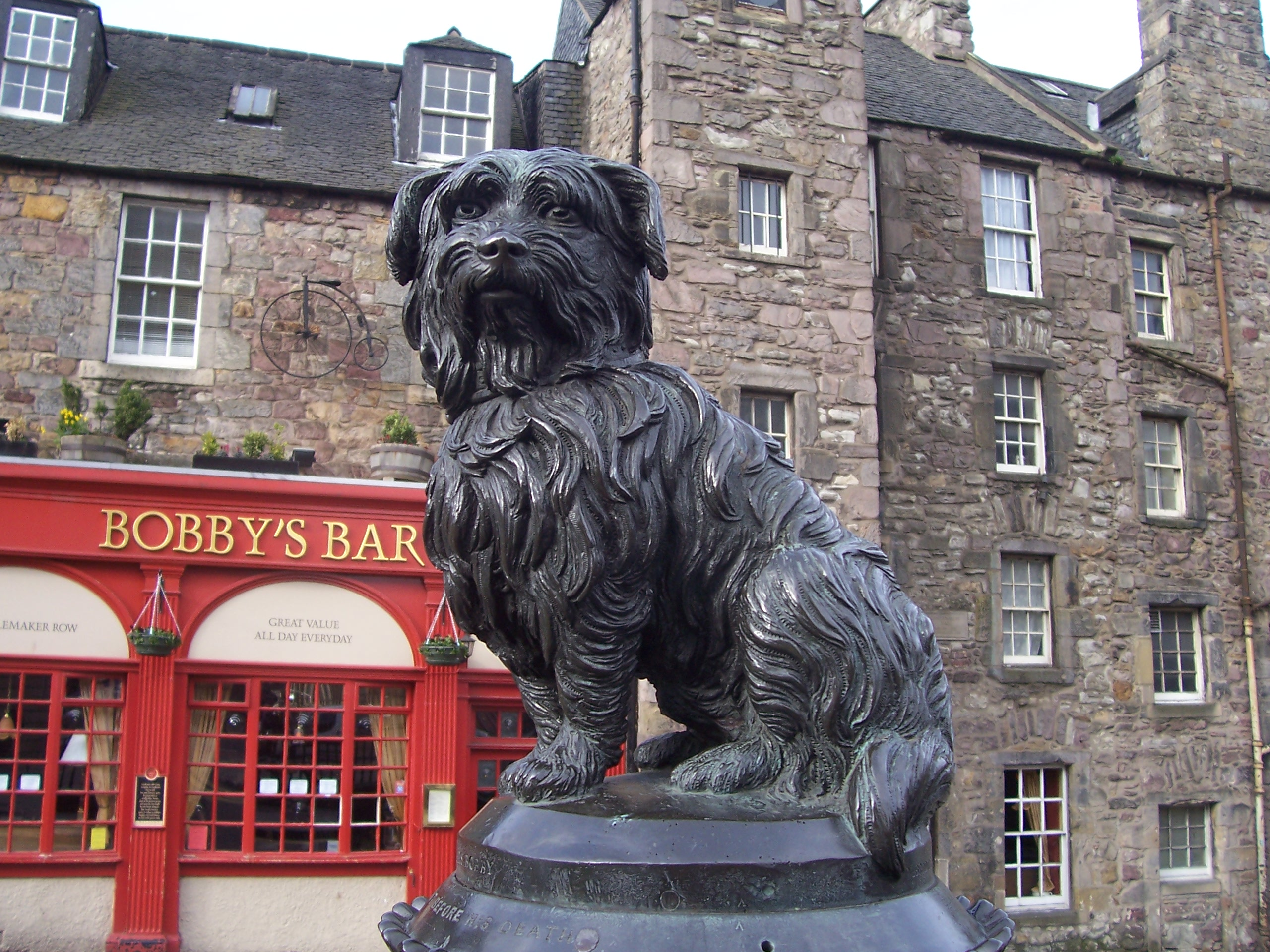 Edinburgh's most famous of residents? The little terrier dog who spent fourteen years guarding his owner's grave. And, of course, inspired part of the Futurama episode Jurassic Bark... Probably..